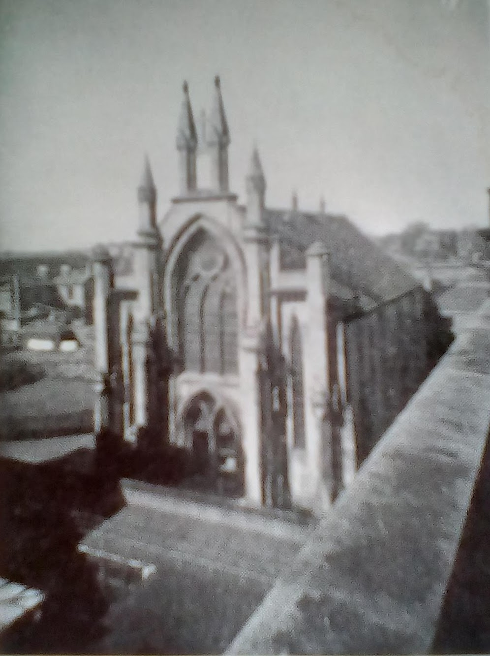 St Joseph's Catholic Church, Kilmarnock, Ayrshire